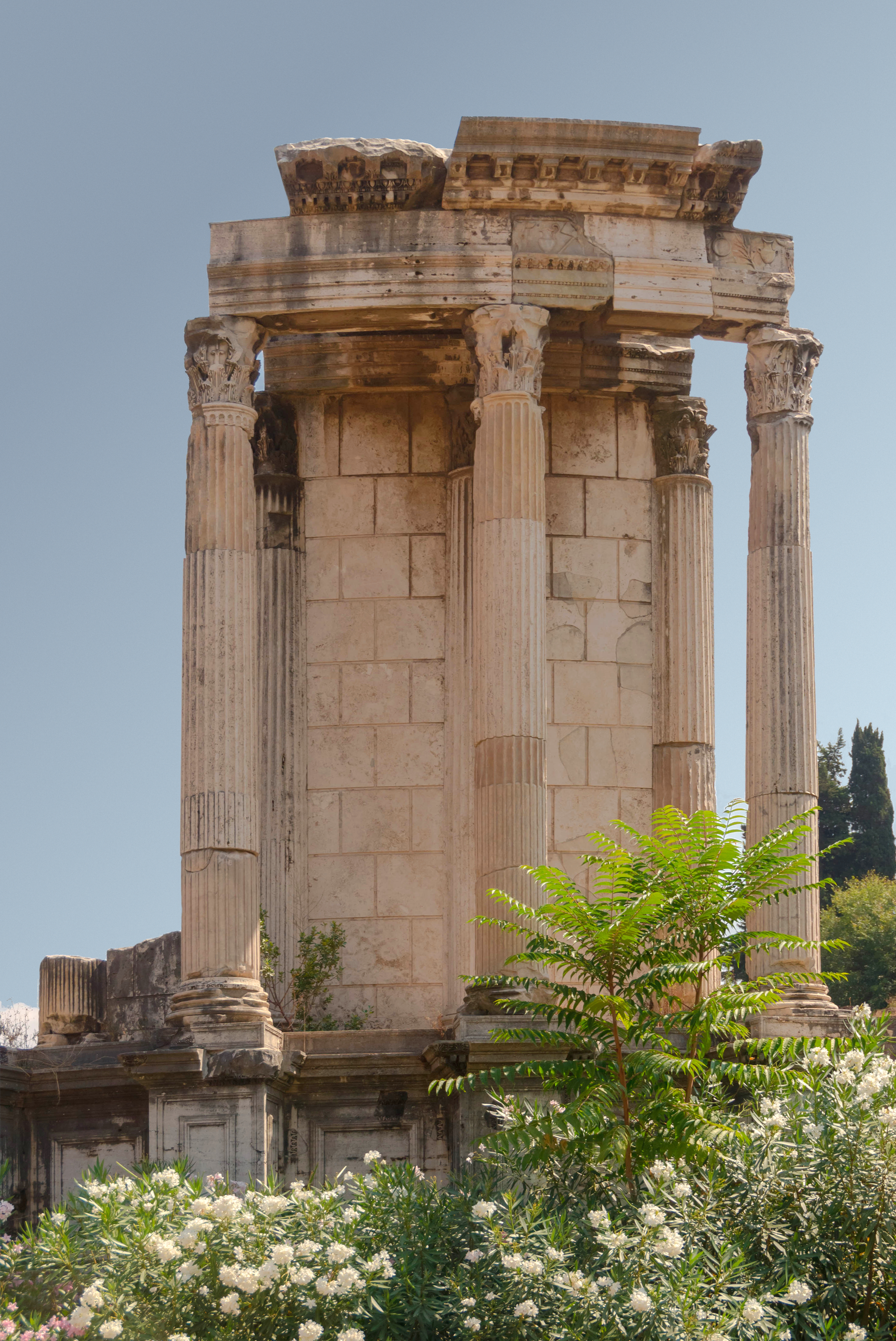 The remains of the temple of Vesta, Forum Romanum, Rome, Italy.